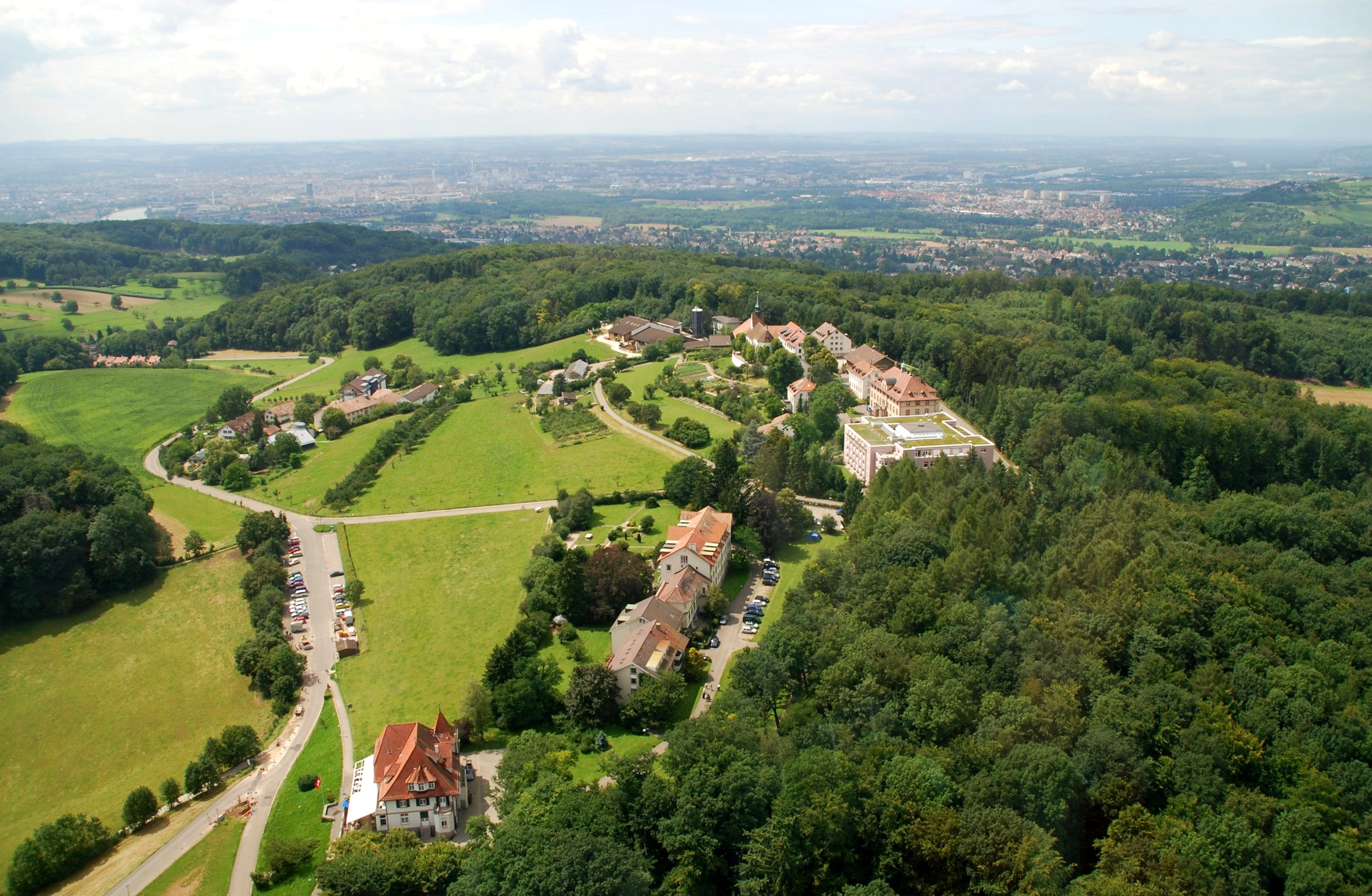 view from Television Tower St. Chrischona